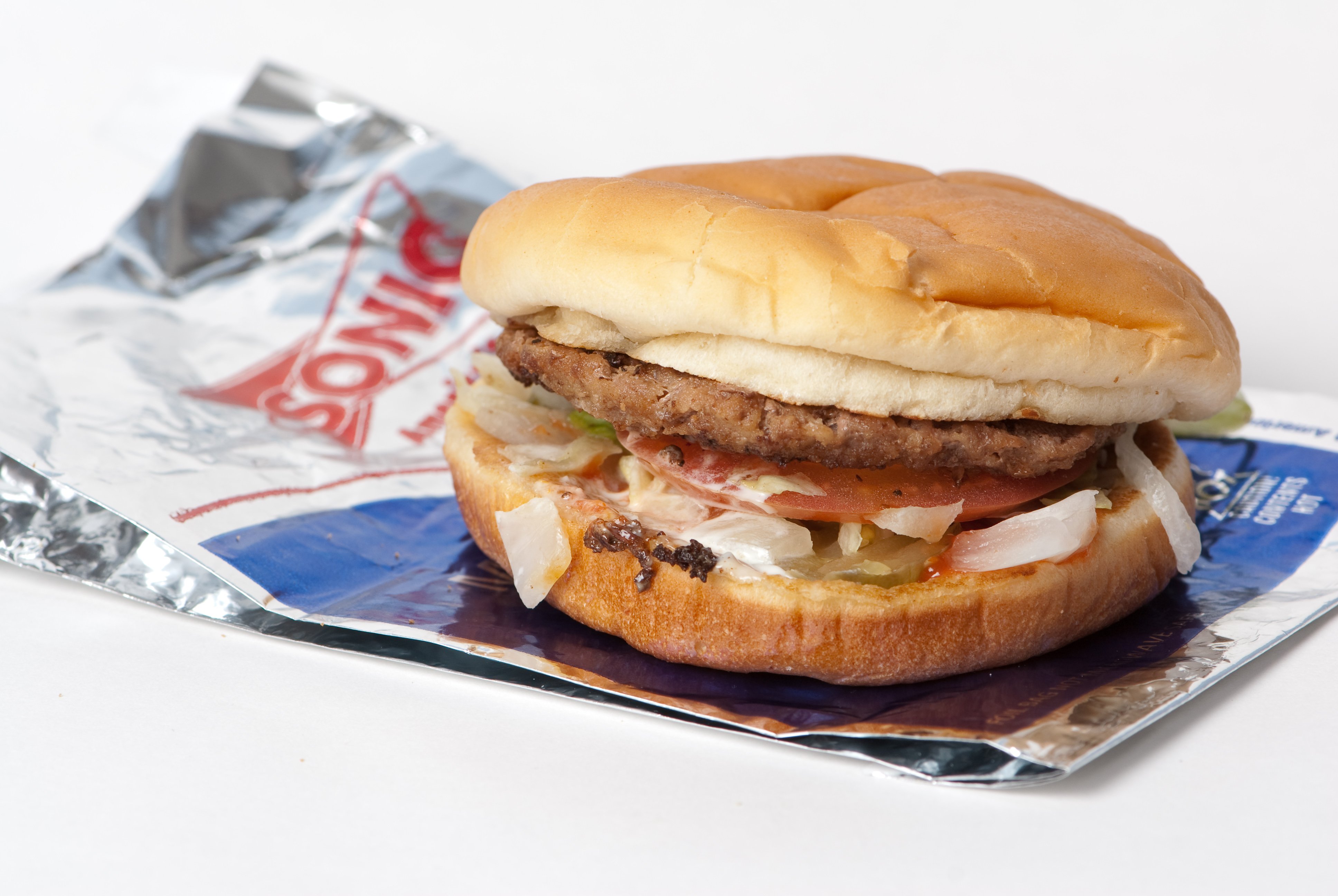 The Jr. Deluxe Burger from Sonic Drive-In. Contains a beef patty, lettuce, pickles, onion, tomato and mayonnaise on a bun.